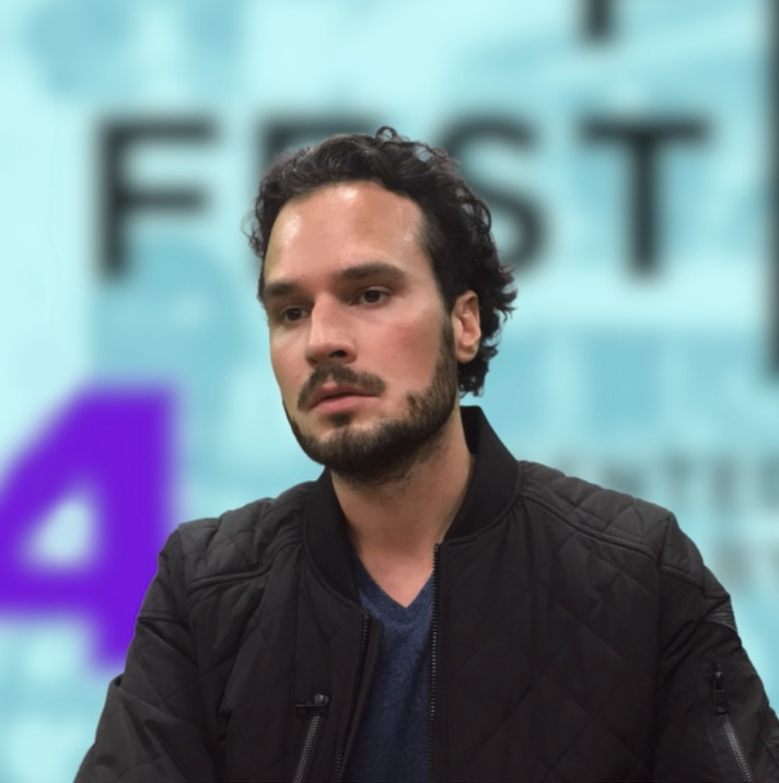 Zachary Laoutides at Los Angeles Q&A film festival event.